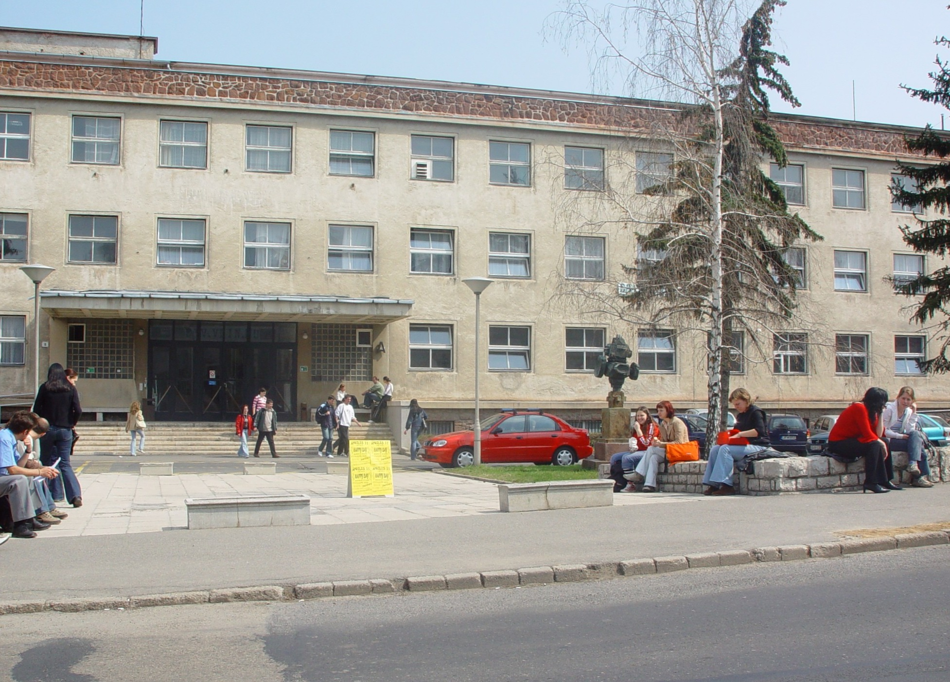 The entrance of one of the central buildings of the University of Veszprém